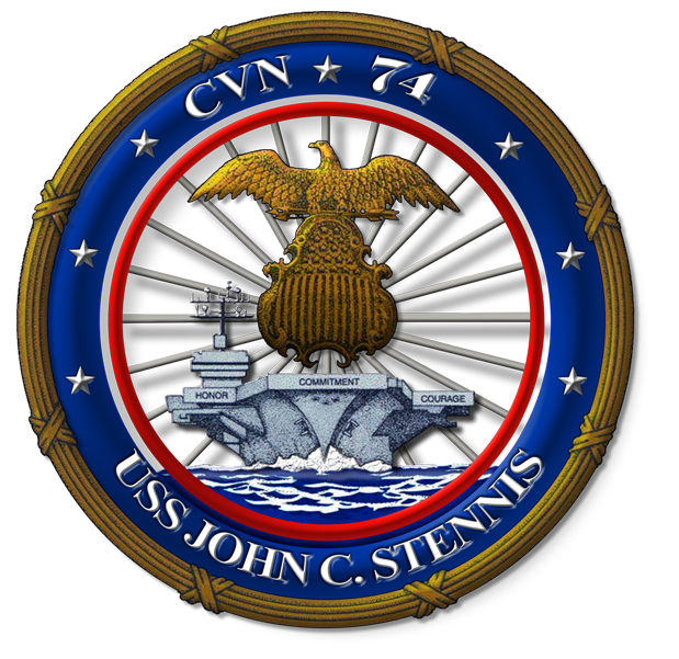 Official seal of the USS John C. Stennis (CVN-74).